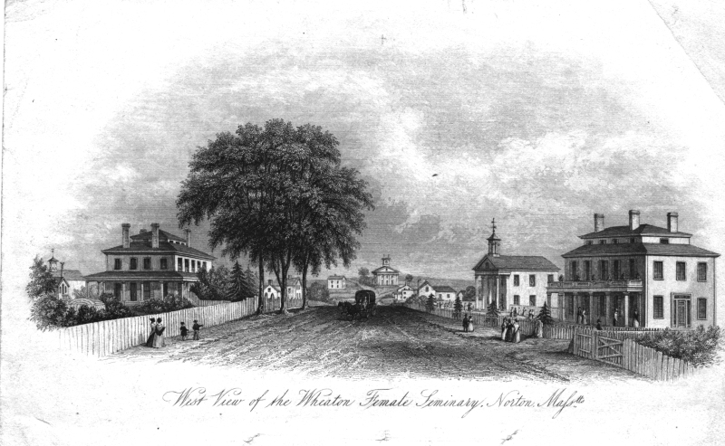 caption: "West View of the Wheaton Female Seminary, Norton, Massuchusetts." (Massuchesetts being abbreviated). The Council of Independent Colleges. Historic Campus Architecture Project (see source) describes the image as "The Sem (1844), Wheaton College (MA)"